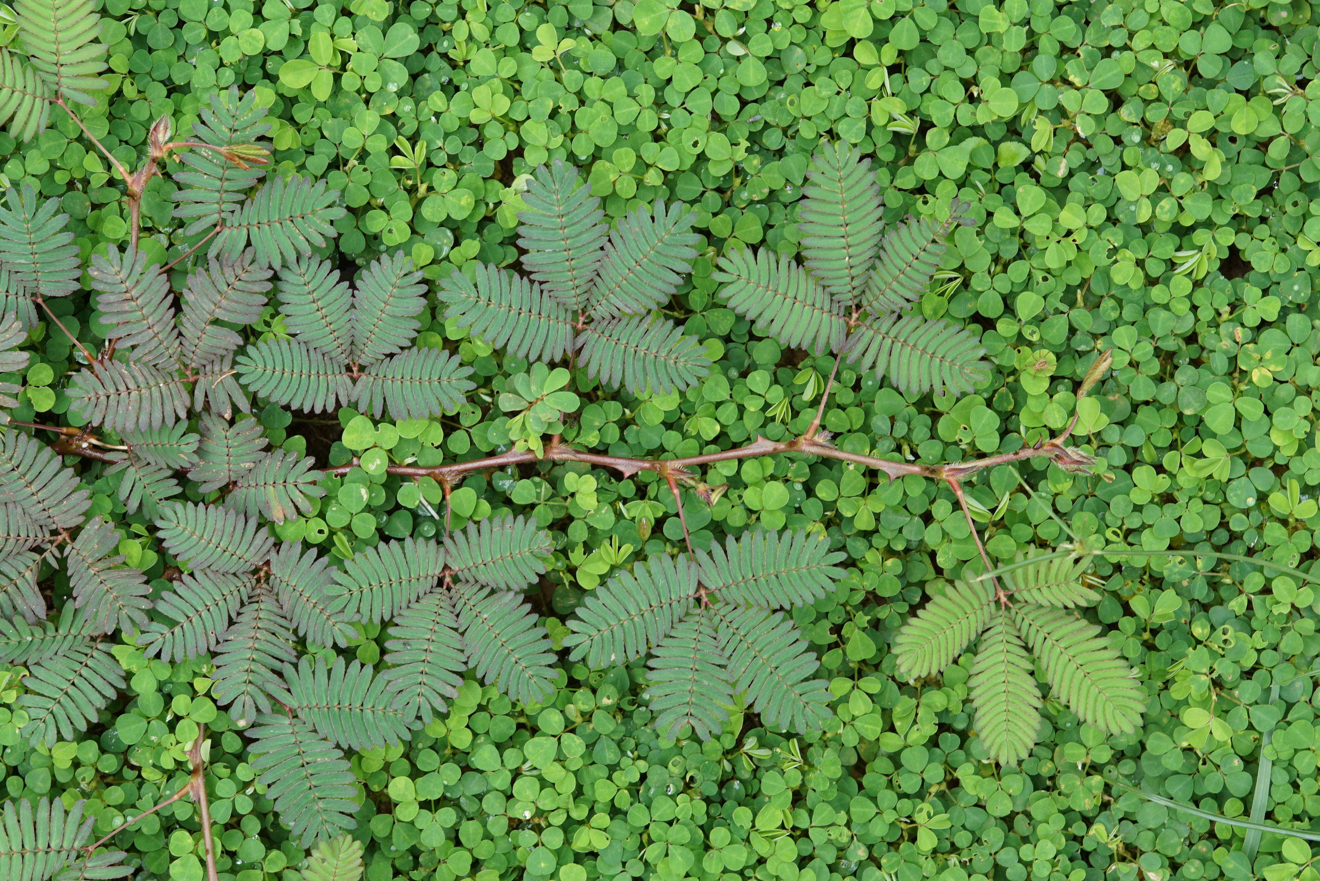 Mimosa pudica